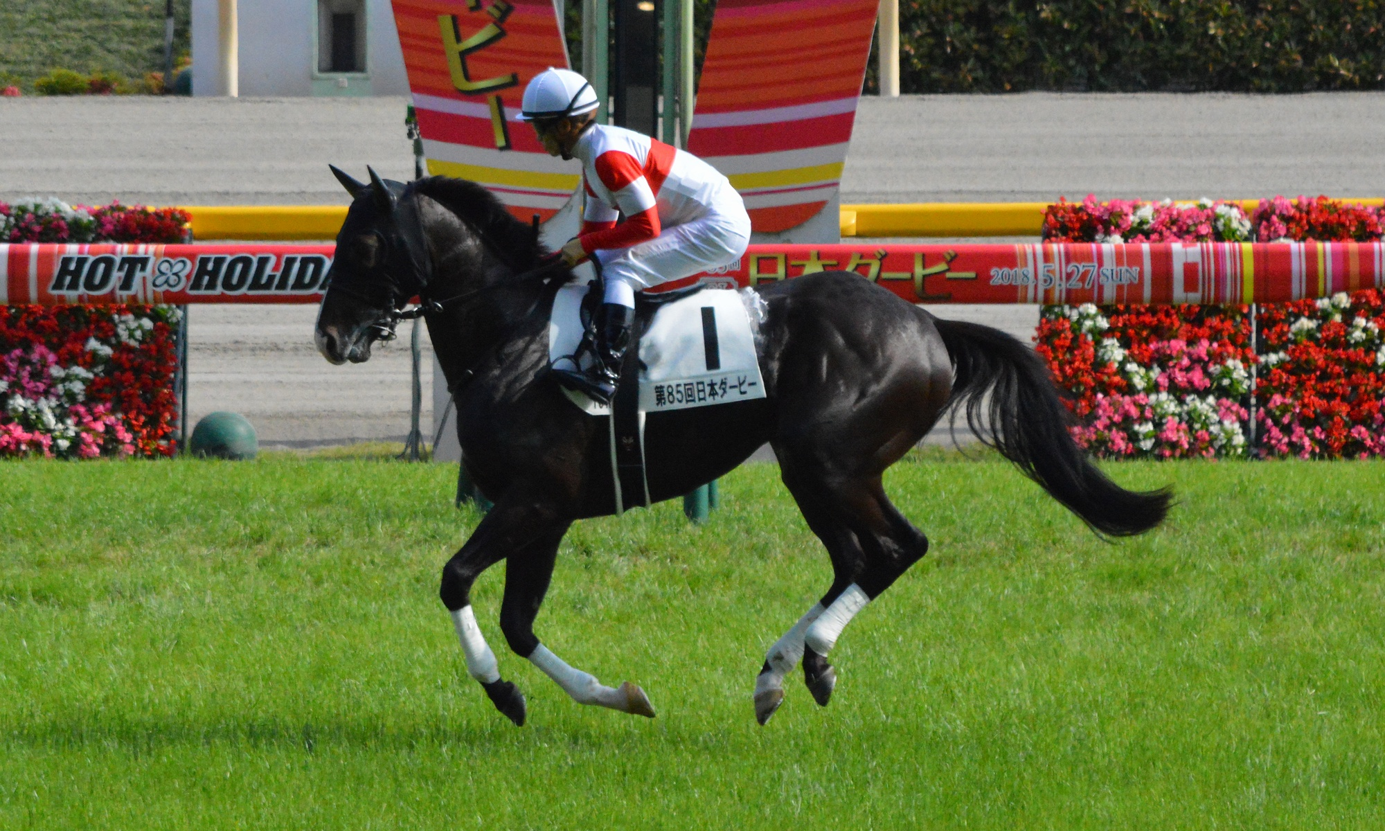 Japanese race horse Danon Premium at Tokyo racecourse. Tokyo (JPN) 27 May 2018 Tokyo Yushun (Japanese Derby) (Grade 1) (3yo Colts & Fillies) (Turf) 1m4f Firm RankHorse NameOddsAgeWgtJockeyTrainer1stWagnerian (JPN)115/10C39-0Yuichi FukunagaYasuo Tomomichi6thDanon Premium (JPN)11/10FC39-0Yuga KawadaMitsumasa NakauchidaOthers are omitted. (18 horses entered in a race.)